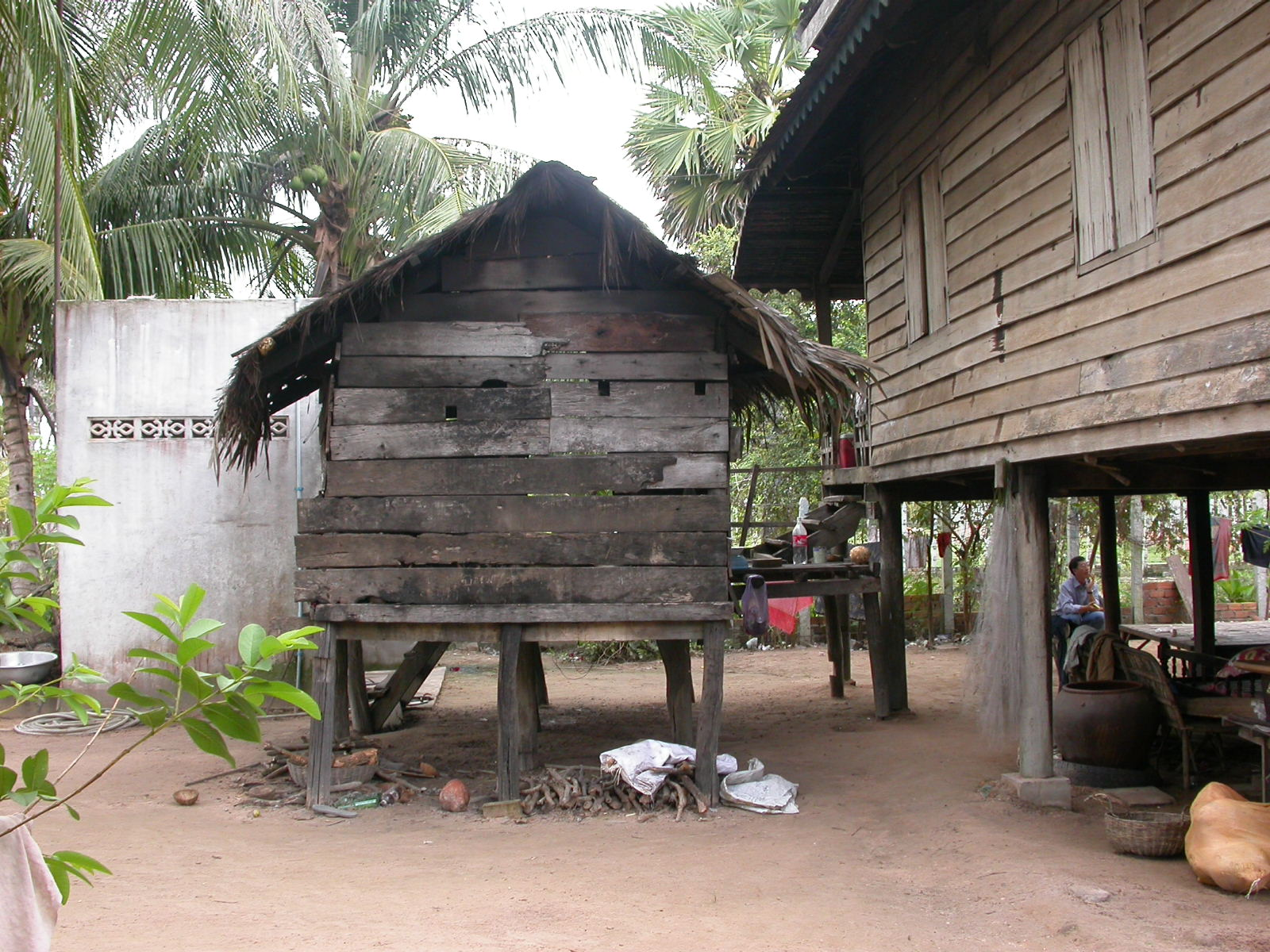 House